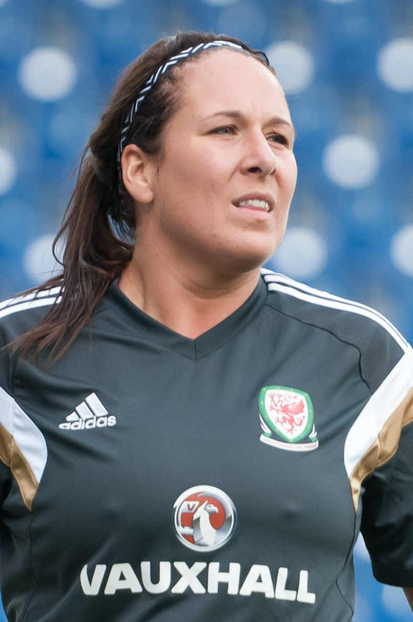 Women's Euro Qualification Austria vs. Wales, 2015-09-22, St. Pölten, Lower Austria